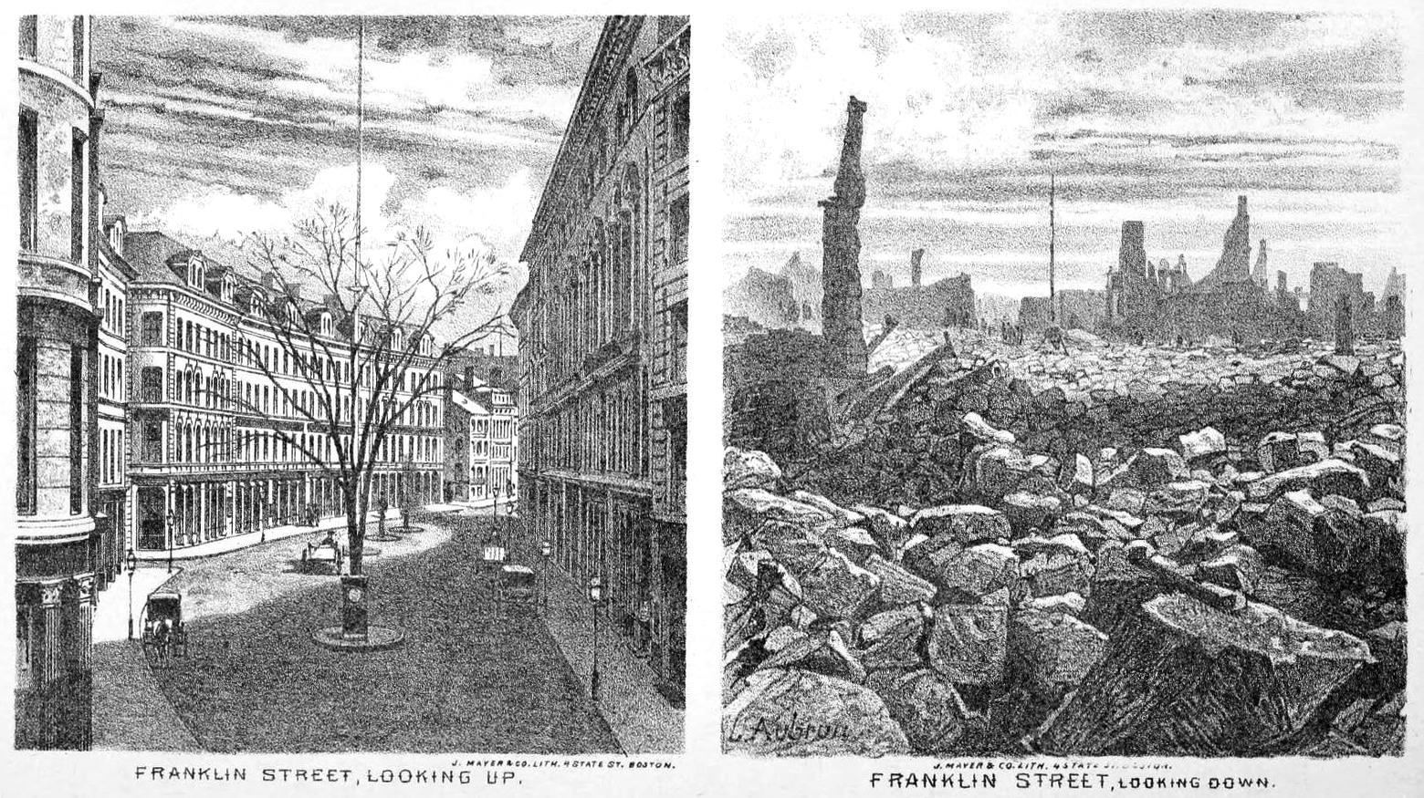 Facsimilie of a lithograph, by Louis Aubrun, from ca. 1873 showing the damage to Franklin St. after the Great Boston Fire of 1872.